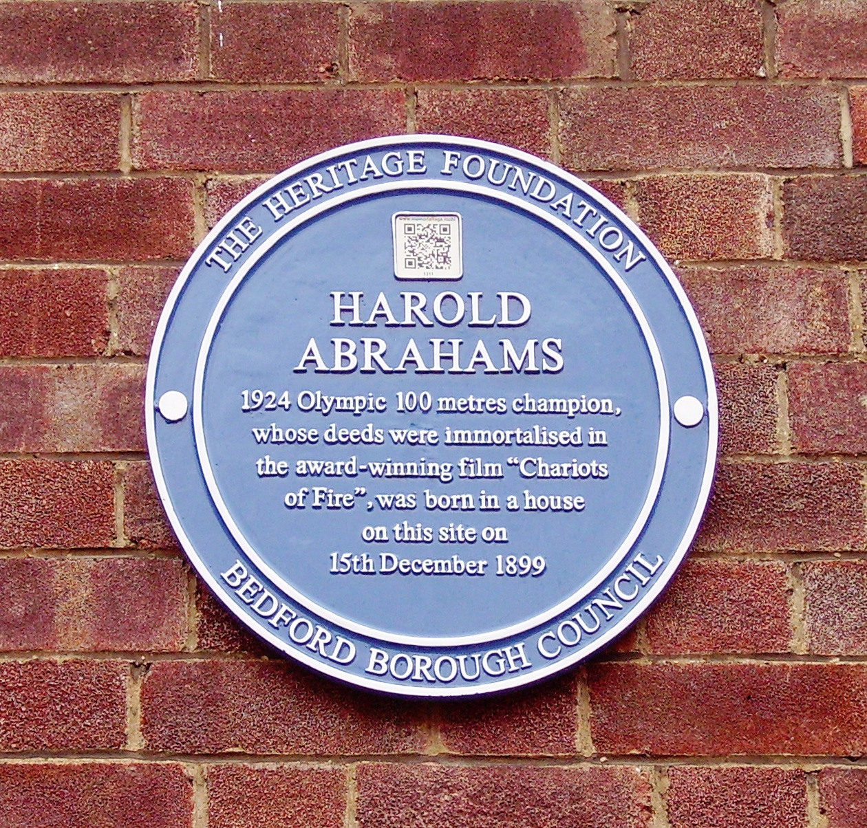 Plaque commemorating the birthplace of athlete Harold Abrahams, at 30 Rutland Road, Bedford. It was unveiled on the 8th July 2012, the same day that the Olympic torch passed through Bedford.